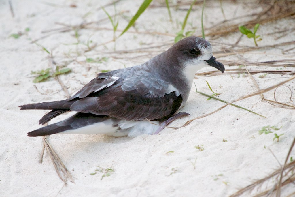 Bonin Petrel | Midway | | 2012-12-31at17-51-40